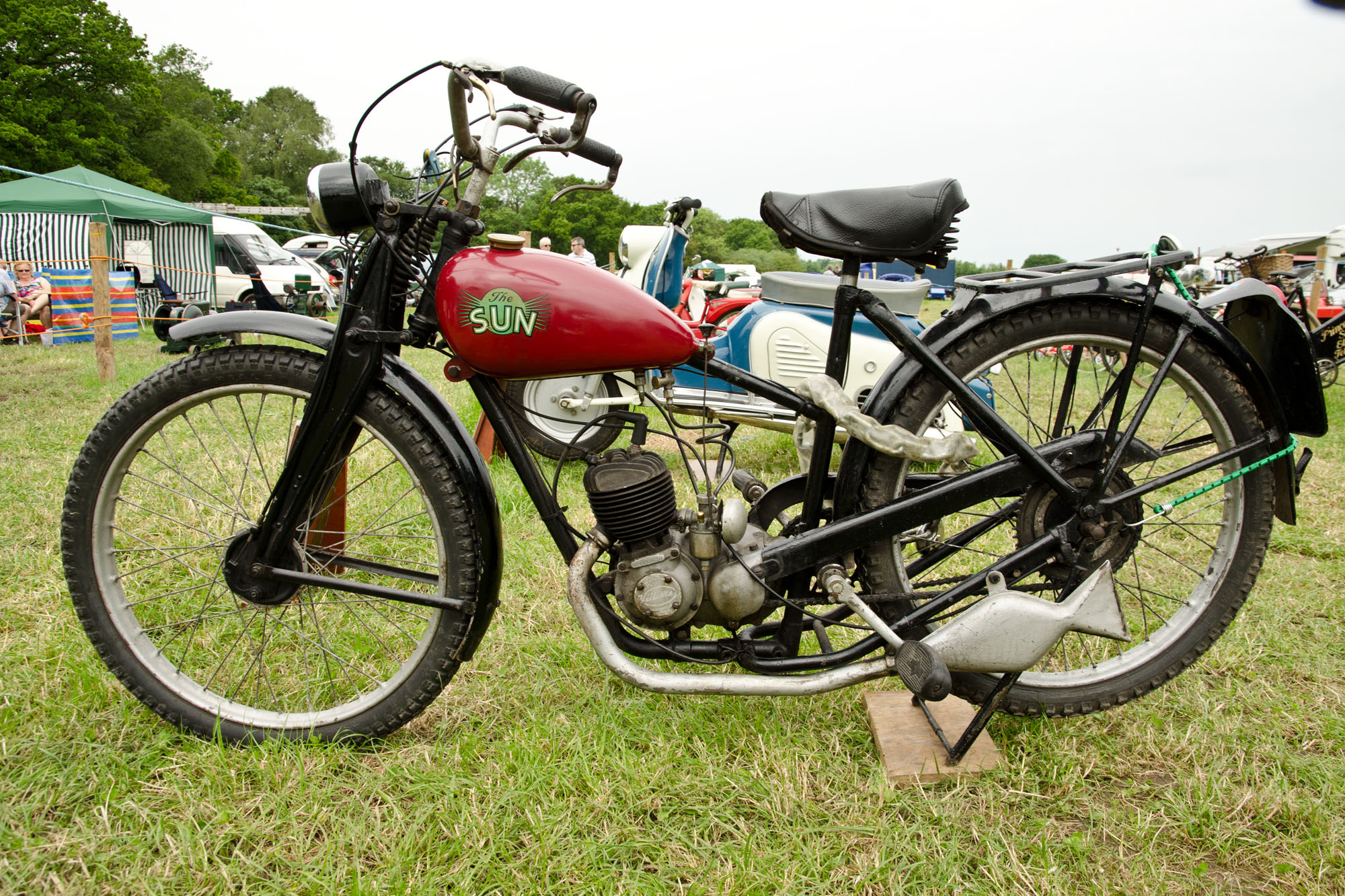 1951 Sun Autocycle at the Heskin Hall Steam Fair 31/05/2014